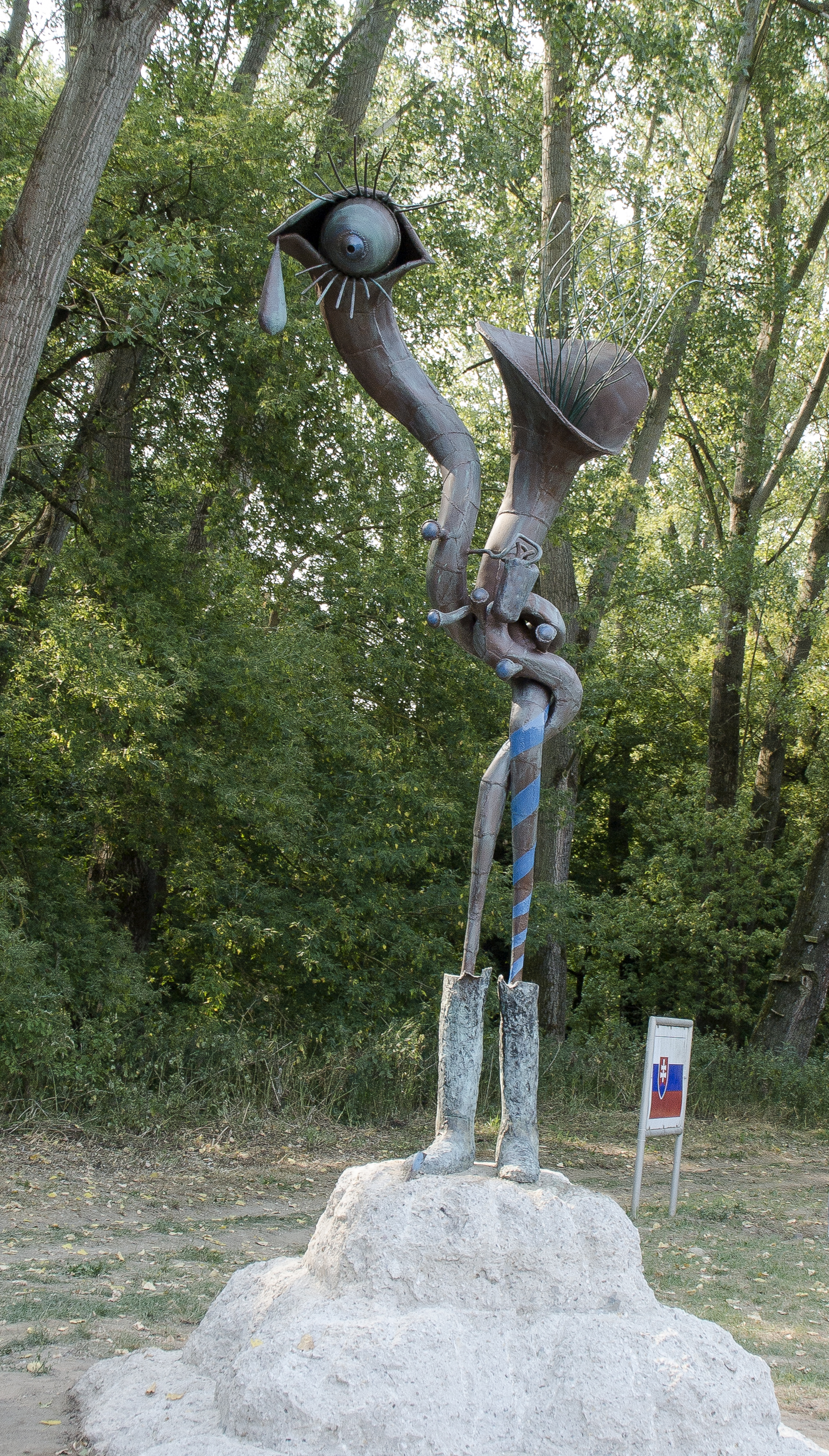 Sculpture The Seekers - Organic Forms by Lubo Kristek